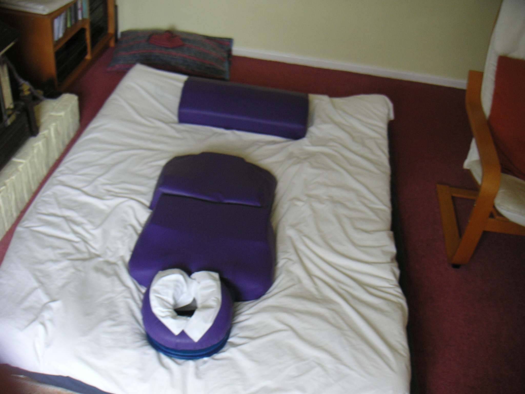 A supporting kit for a massage session, sitting on top of a mattress on the floor. This image appears in a gallery...